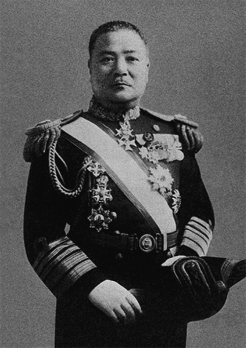 Seizō Kobayashi (1877-1962) Seizō Kobayashi was a Japanese naval commander, commander of the Combined Fleet of the Imperial Japanese Navy (1931–1933) and the 17th Governor-General of Taiwan (1936–1940). The photo is when he was the governor of Taiwan (1936–40).